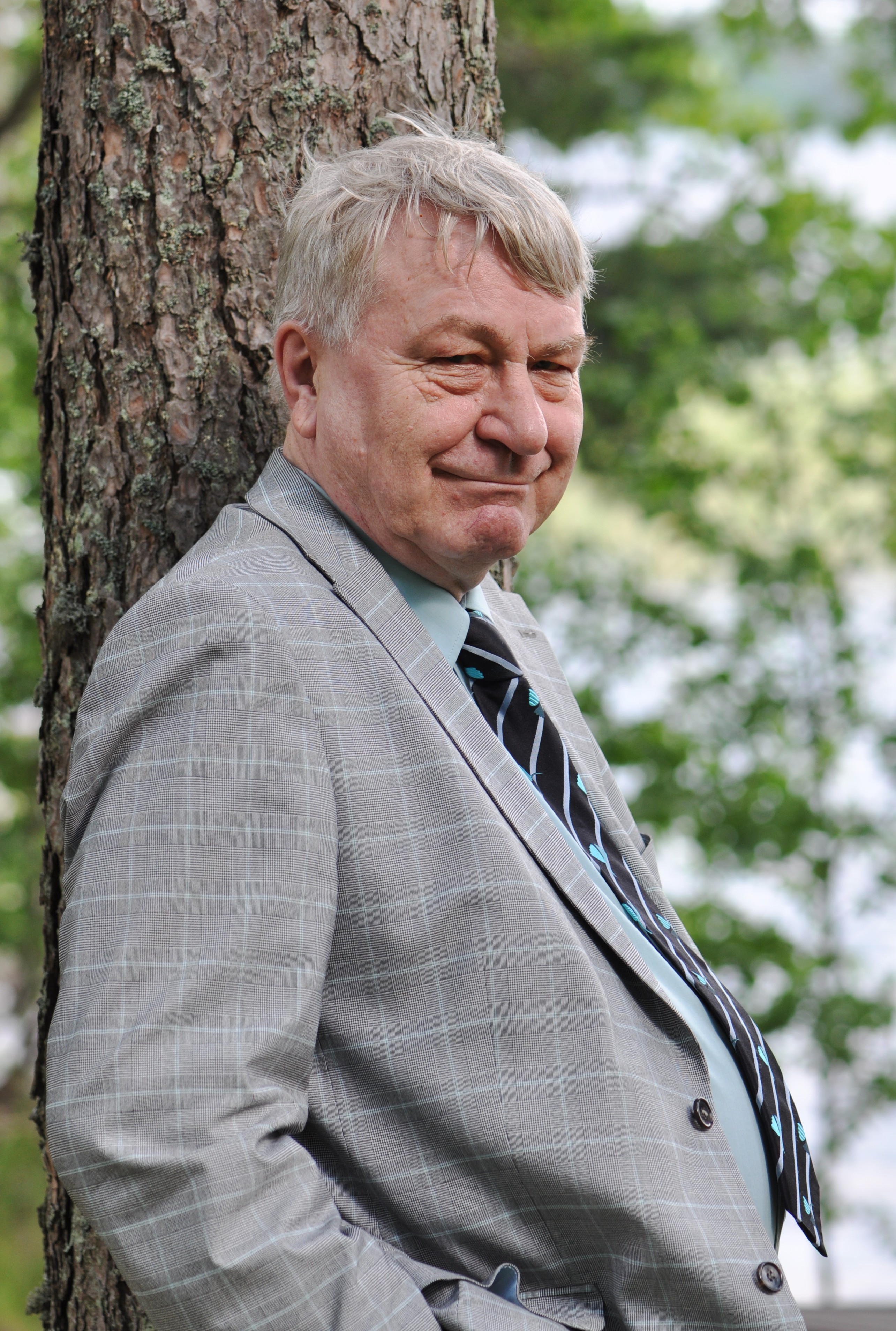 Vexi Salmi, Finnish lyricist, at Purnu art centre in Orivesi, Finland.